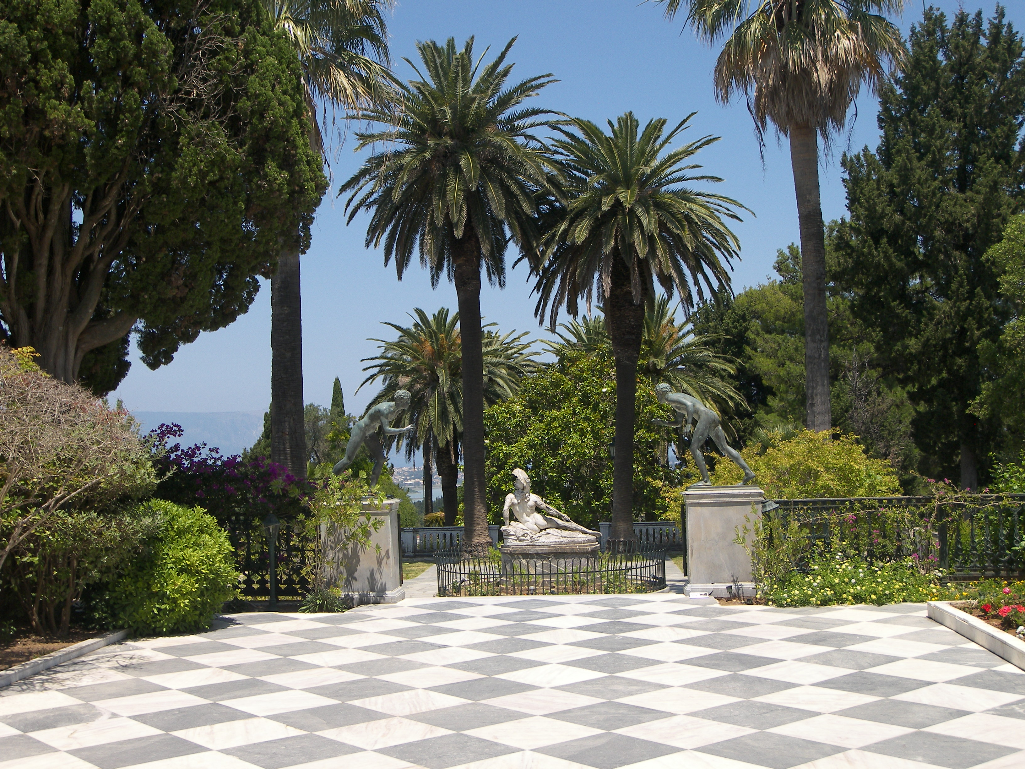 Please see filename